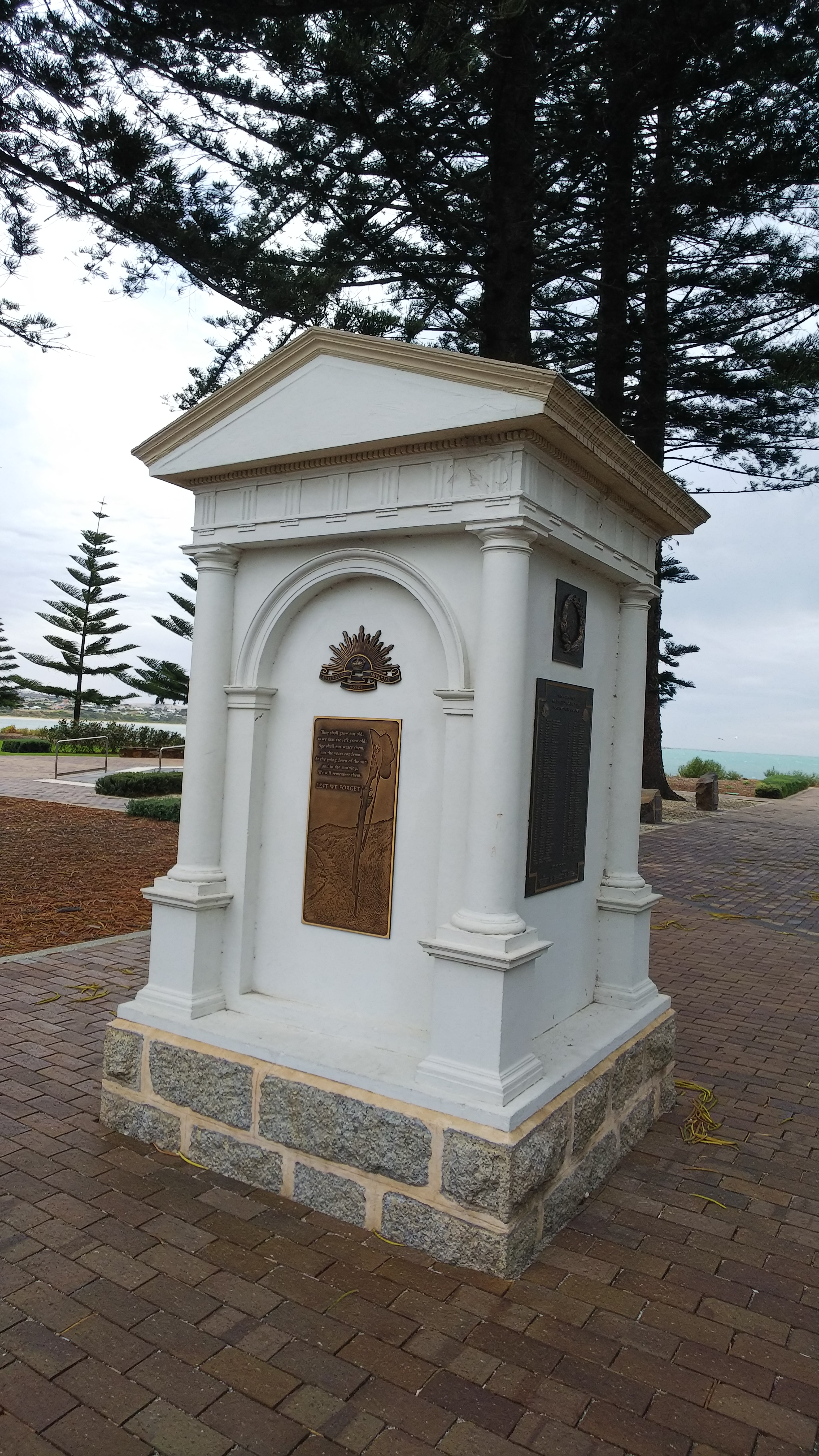 Soldiers Memorial Gardens